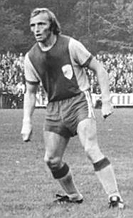 Factual corrections and alternative descriptions are encouraged separately from the original description. Additionally errors can be reported at this page to inform the Bundesarchiv. Original historic description: Rainer Schlutter 1976